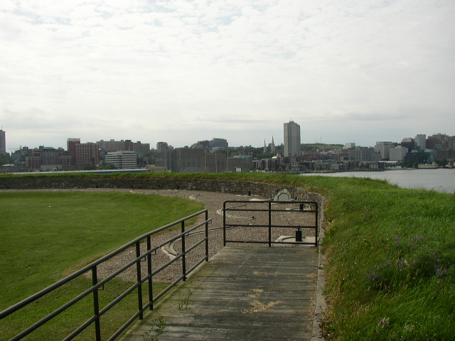 Fort Charotte on Georges Island, Nova Scotia.